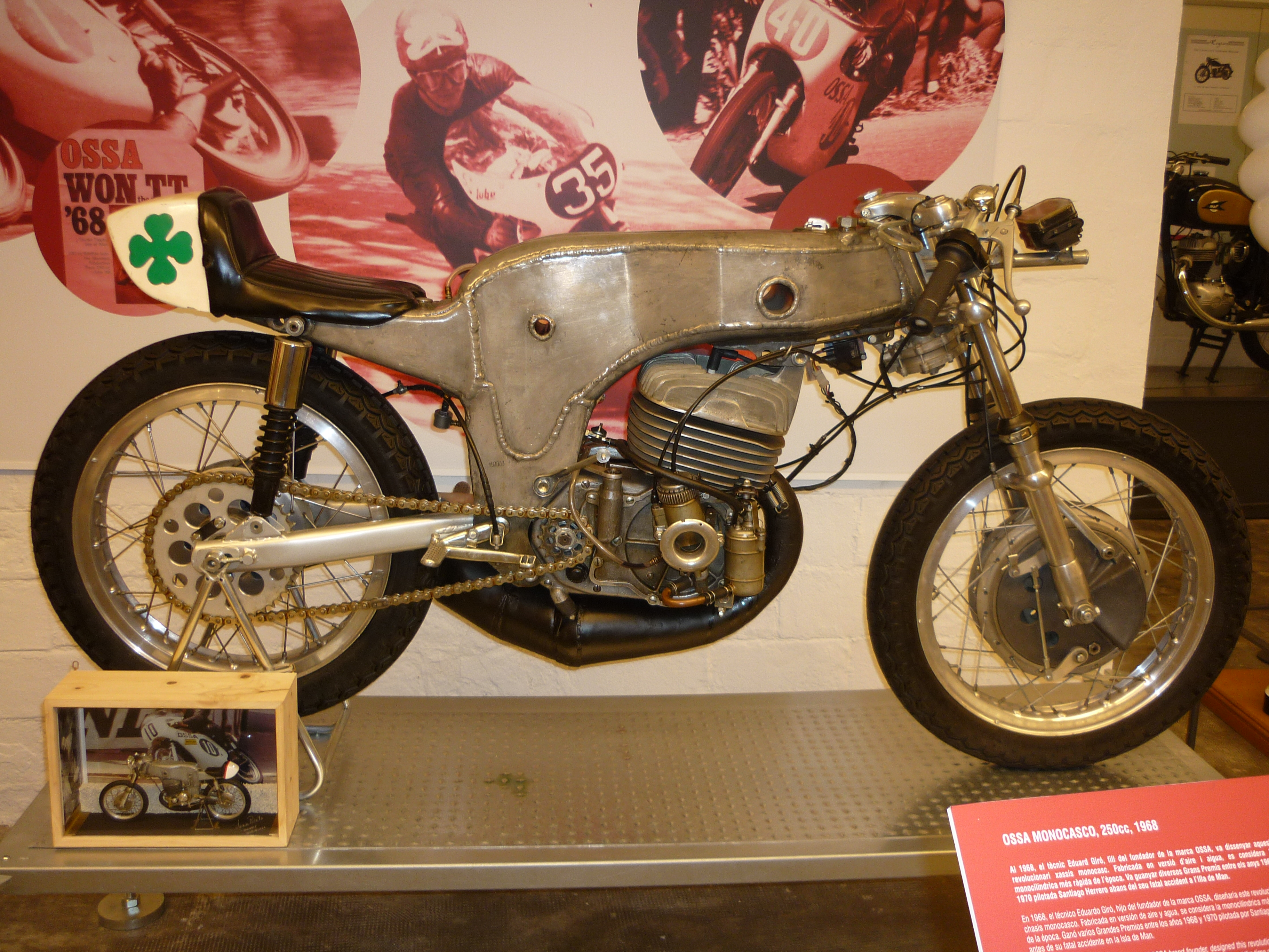 OSSA Monocoque 250cc, 1968. Created by Eduard Giró and ridden by Santiago Herrero, this bike was regarded as the fastest single cylinder motorbike at the time and won several Grand Prix between 1968 and 1970. Herrero died when he crashed while riding it at 1970 Isle of Man TT.